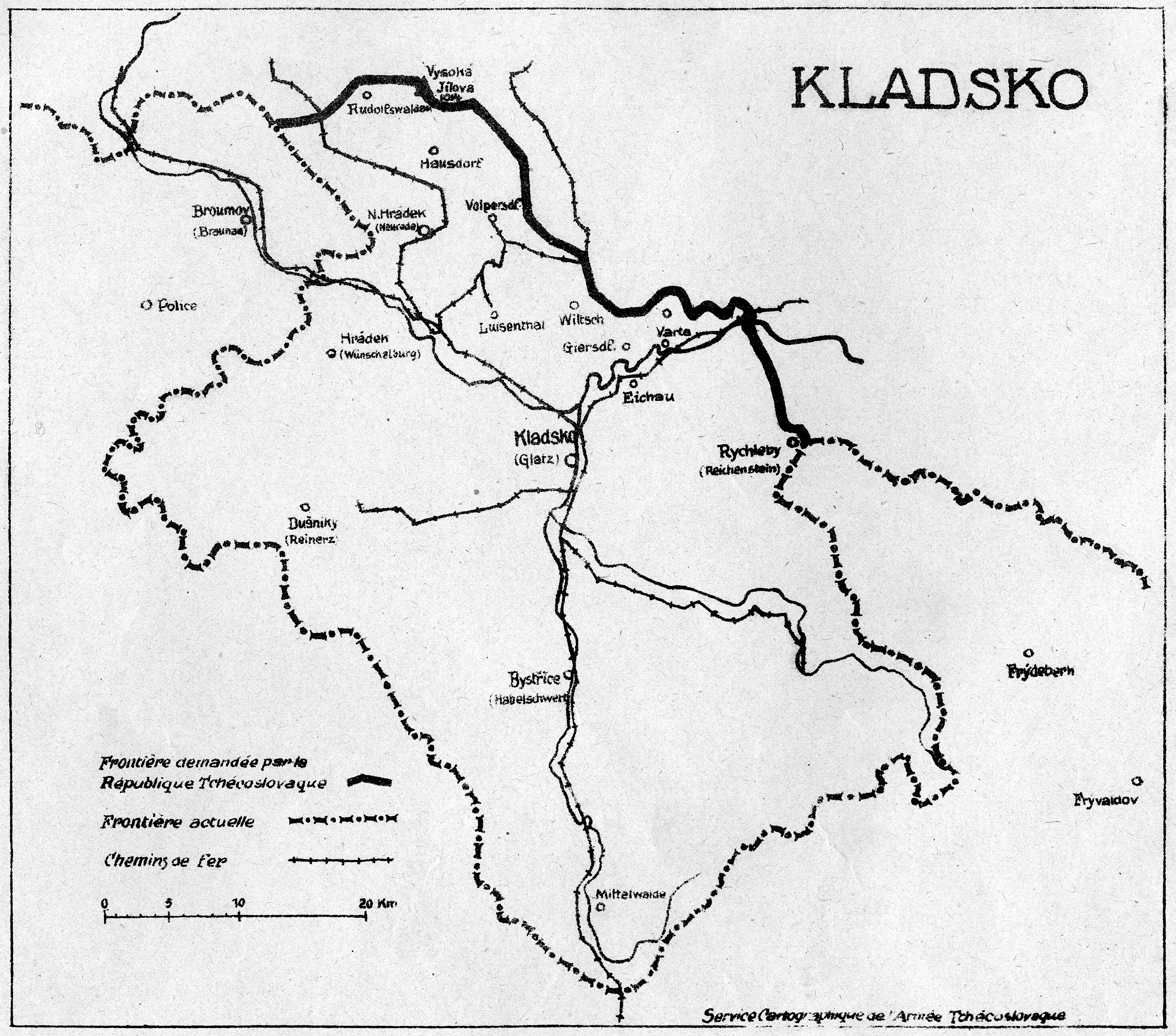 Czechoslovak territorial demands on the Kladsko/Glatz territory of Germany (now Kłodzko in Poland) in 1919 - maximum demands option.